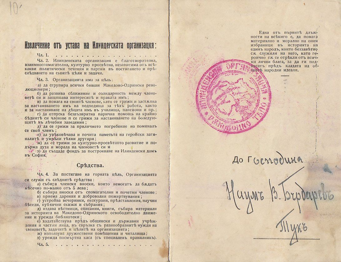 Statute of Ilinden Organisation's in its member card